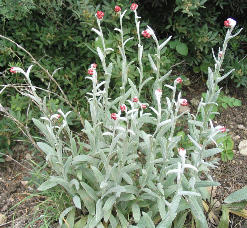 Helichrysum sanguineum - image taken on 30 March 2004, on the slopes of Mount Carmel, Israel.